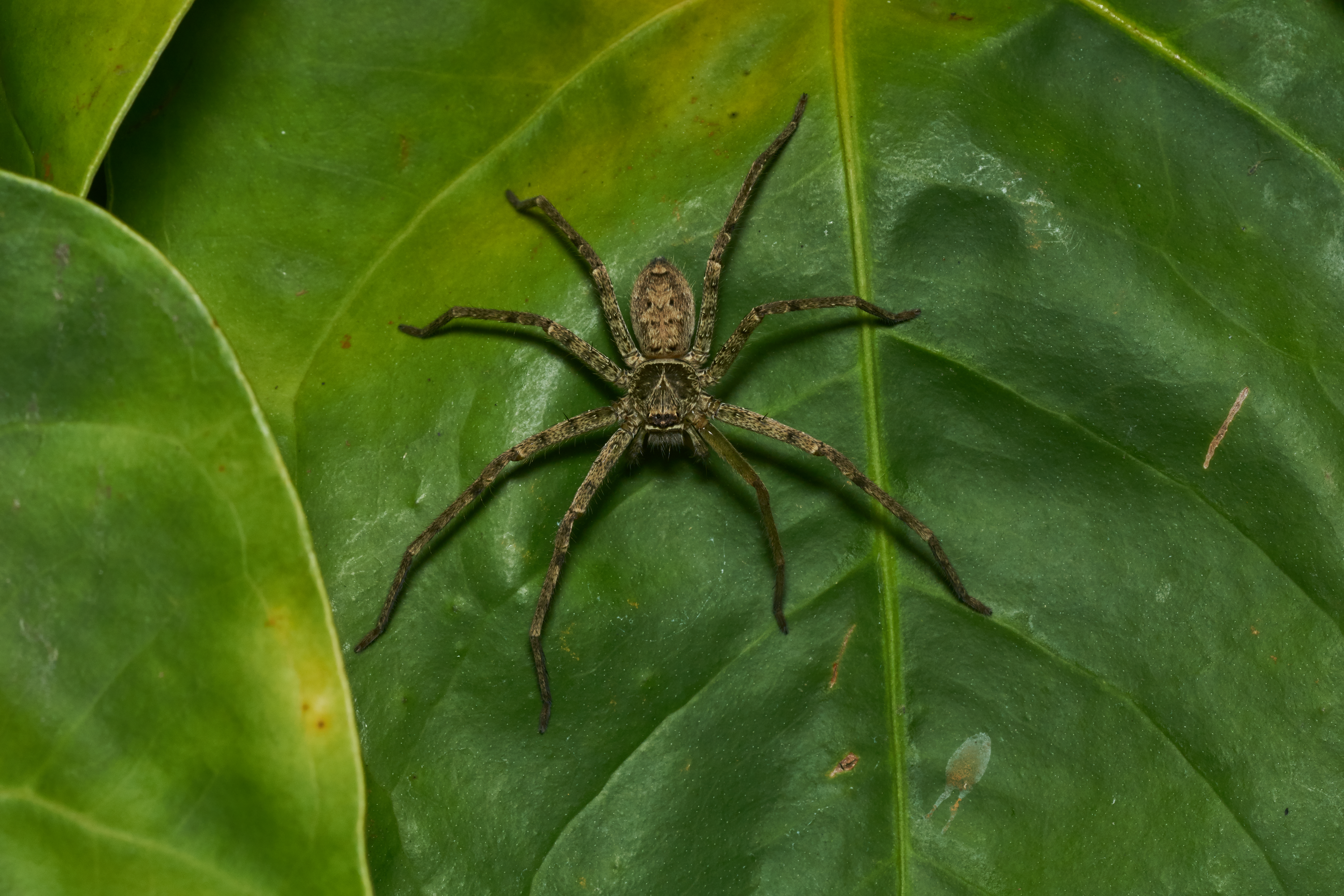 Heteropoda venatoria, Giant crab spider, is a species of spider in the family Sparassidae, the huntsman spiders.